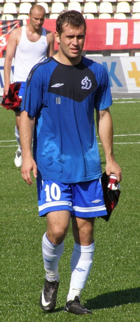 Aleksandr Kerzhakov in action for FC Dinamo Moscow